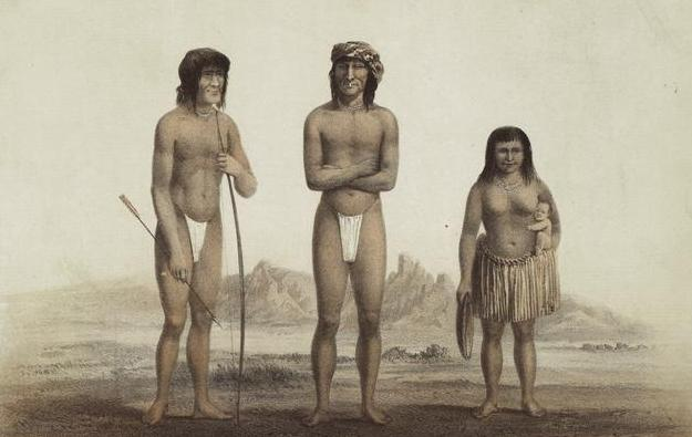 A rendering of Chief Cairook, Irataba, and a Mohave woman by German artist Balduin Möllhausen.[1]